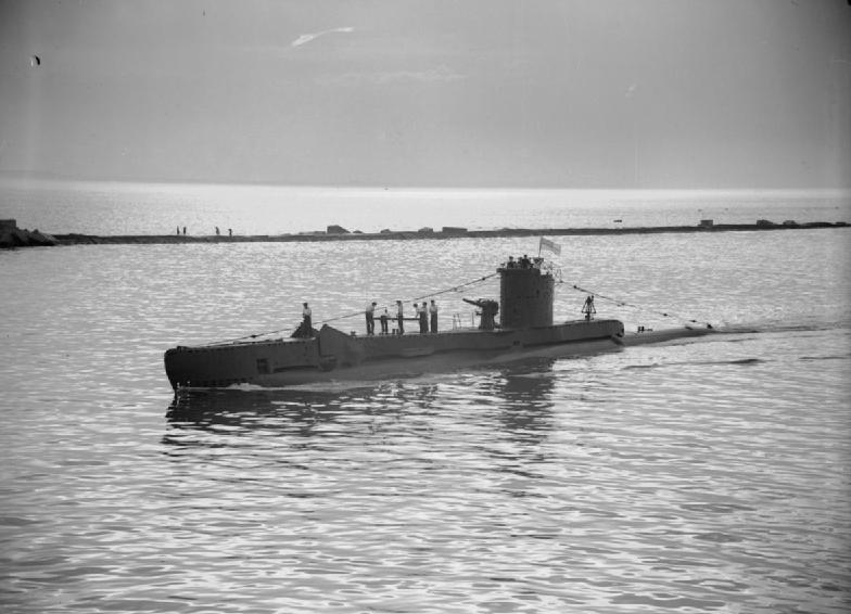 HM Submarine ULTOR coming in from patrol at Algiers.